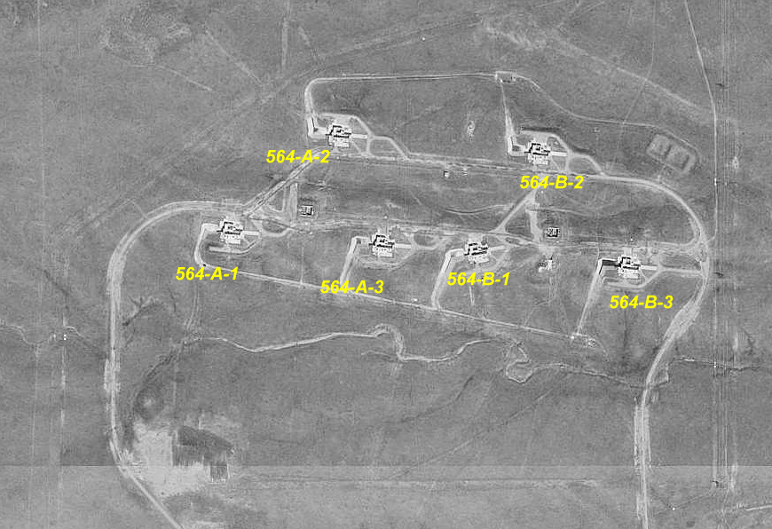 Aerial image of 564th Missile Squadron SM-65D Atlas Missile launchers in Wyoming, United States